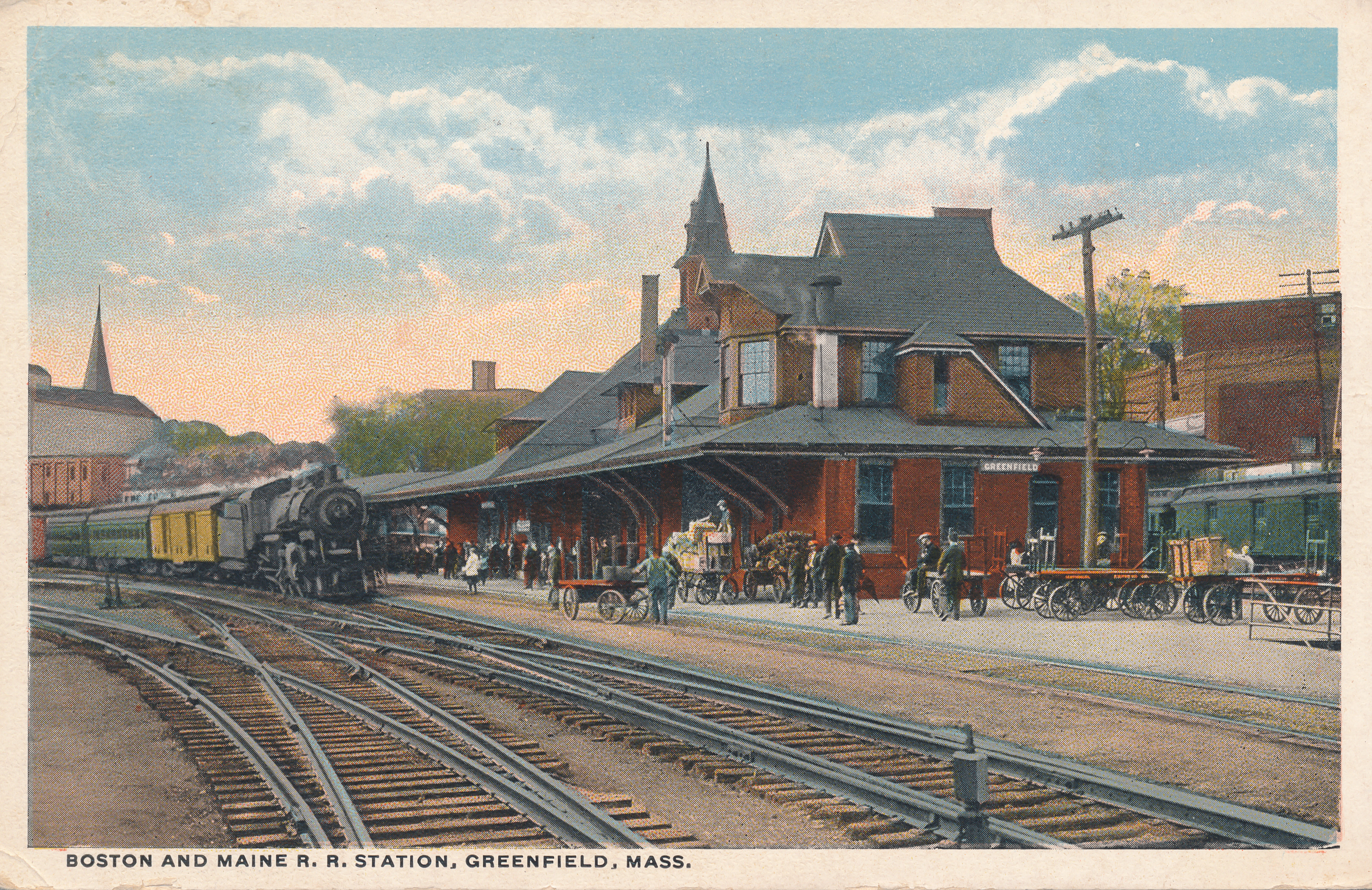 An early postcard showing the former Boston and Maine Railroad station in Greenfield, Massachusetts.